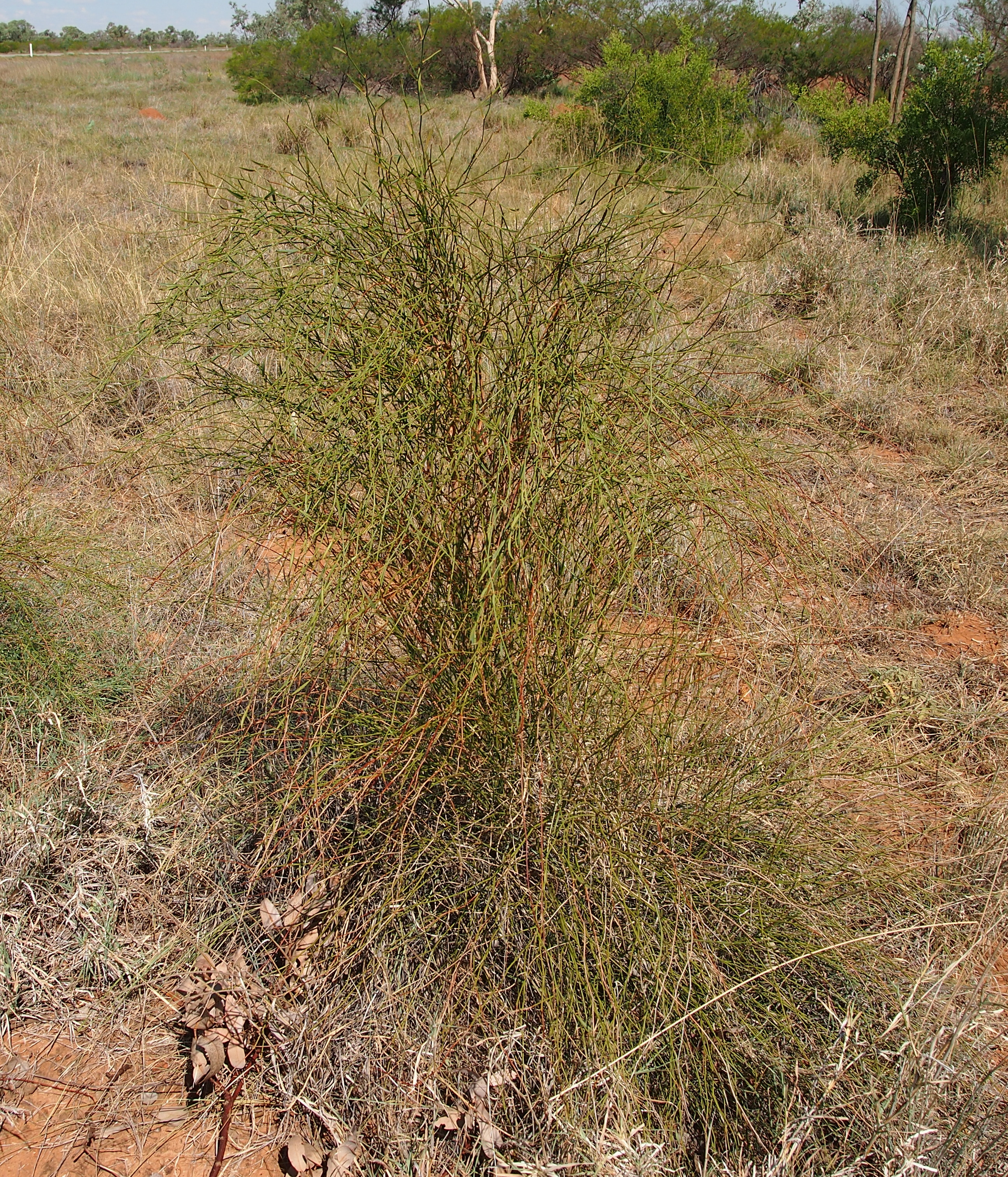 Meuhlenbeckia florulenta (Tangled Lignum) habit